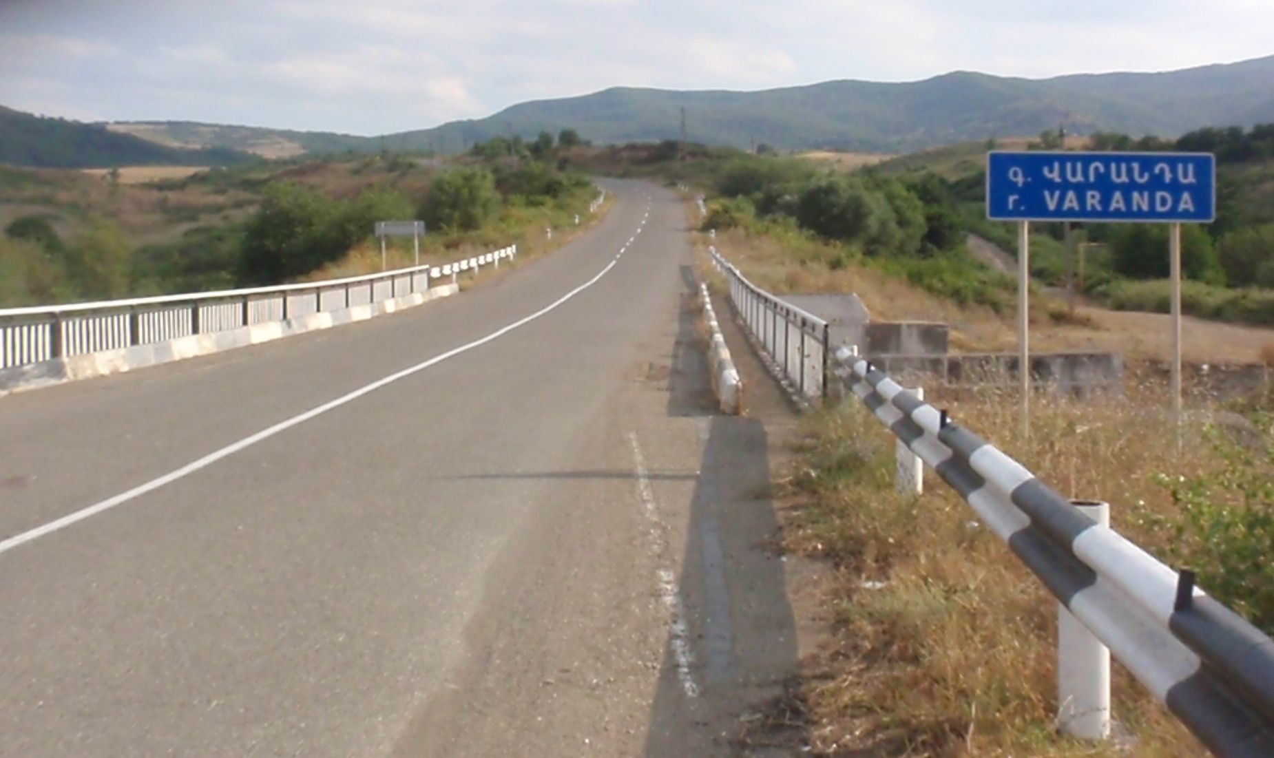 Bridge of the Republican road "North-South" over the river Varanda between the Martuni and Hadrout districts of the Republic of Mountainous Karabakh (Artsakh).